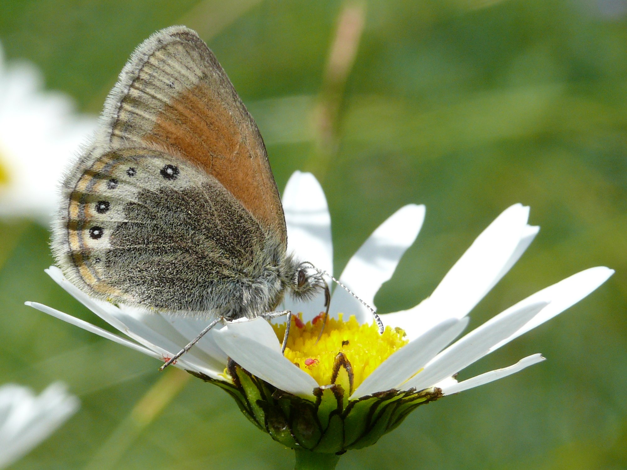 Alpine Heath ssp. gardetta, Bavaria, Ammergebirge